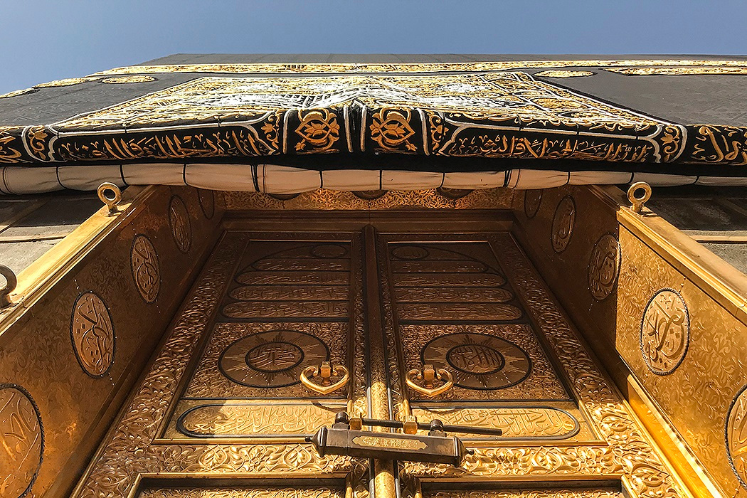 Hajj pilgrims -August 2018